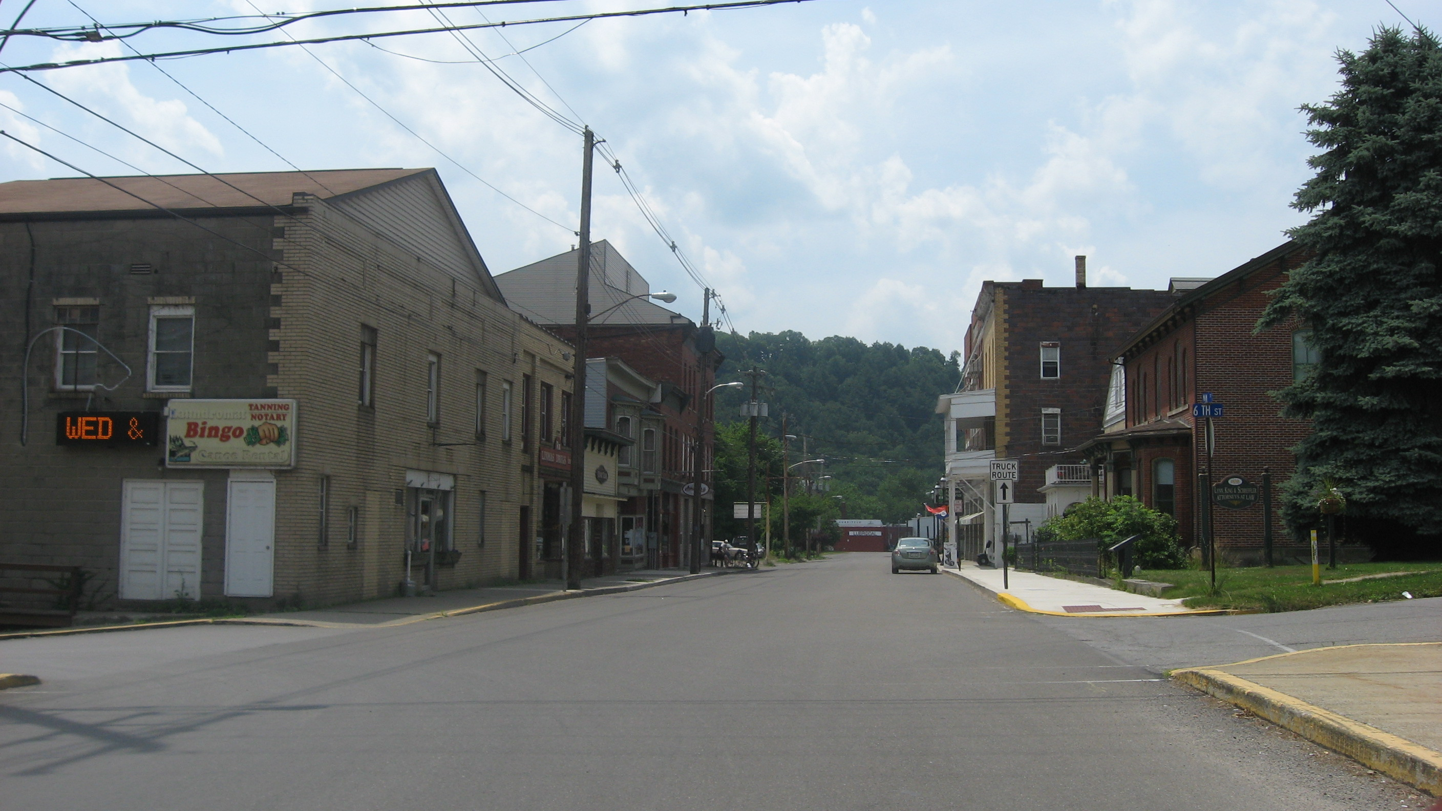 Looking westward on Main Street from the Sixth Street intersection in downtown Emlenton, Pennsylvania, United States. This block is part of the Emlenton Historic District, a historic district that is listed on the National Register of Historic Places.